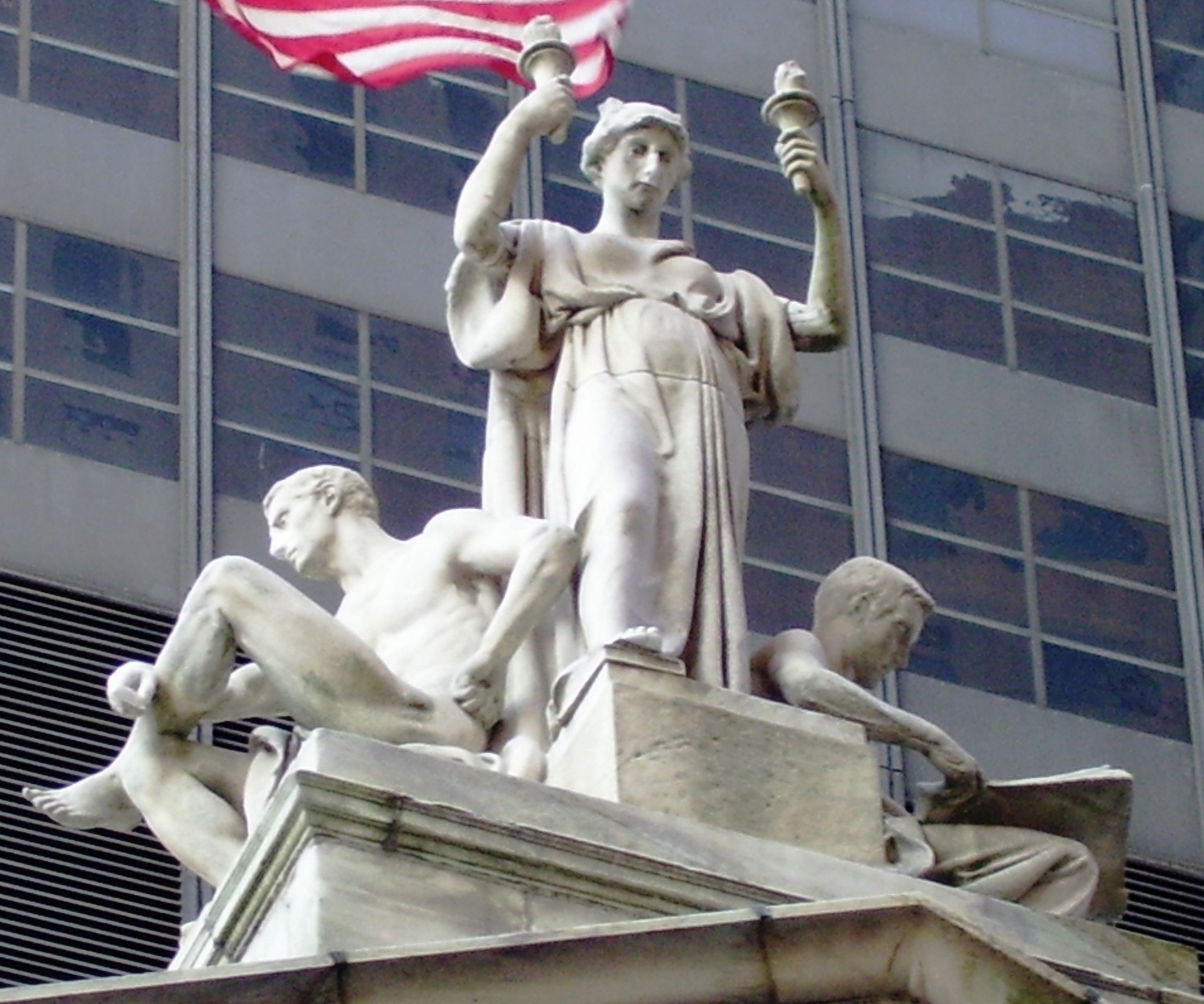 Justice by Daniel Chester French, over the pediment of the New York State Appellate Division Courthouse on East 25th Street at Madison Avenue across from Madison Square Park in Manhattan, New York City.